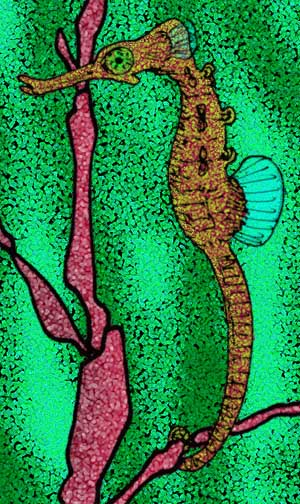 Reconstructions of the prehistoric seahorse H. slovenicus from the Tunjice Hills lagerstatten of Lower Miocene Slovenia